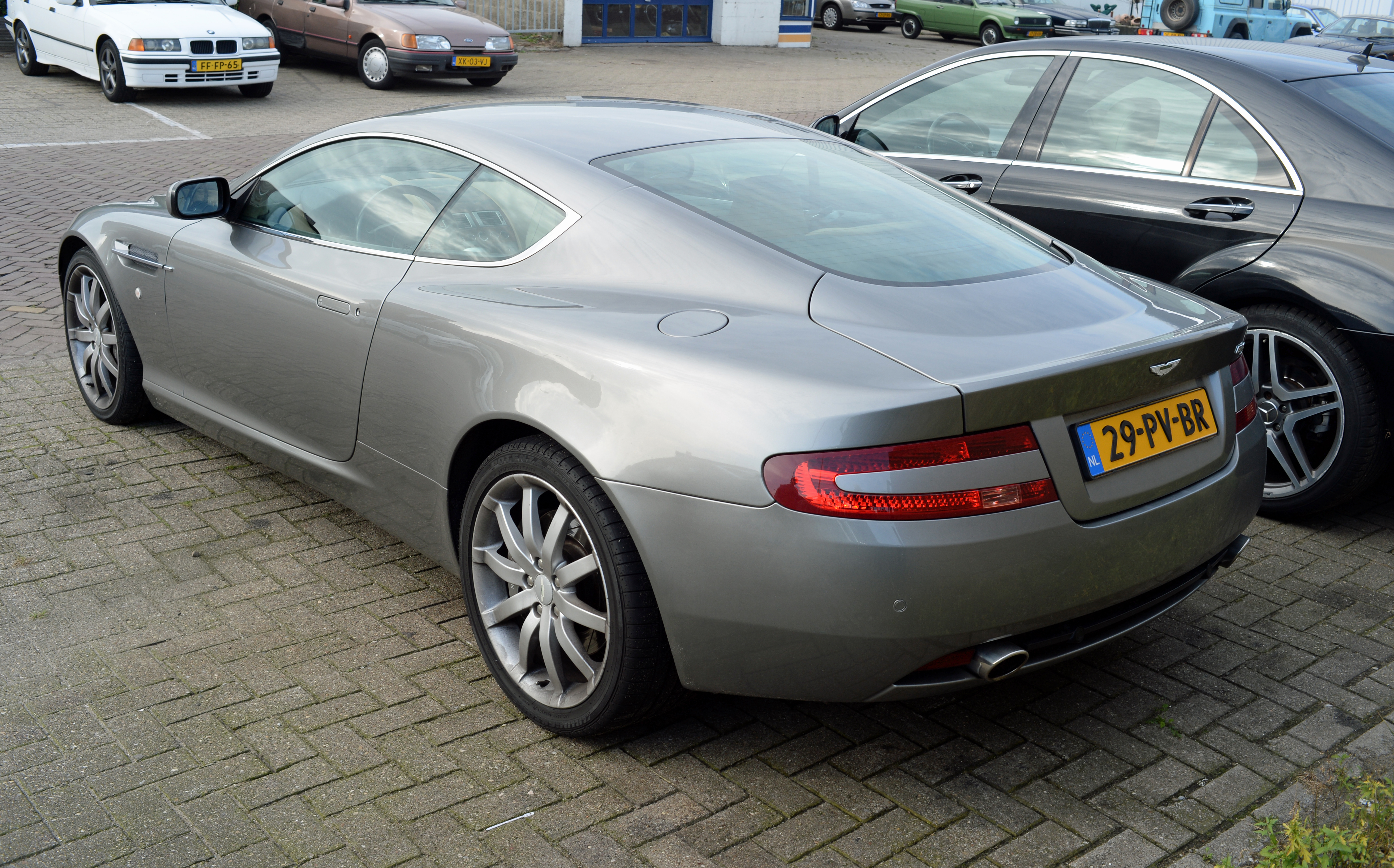 2004 Aston Martin DB9